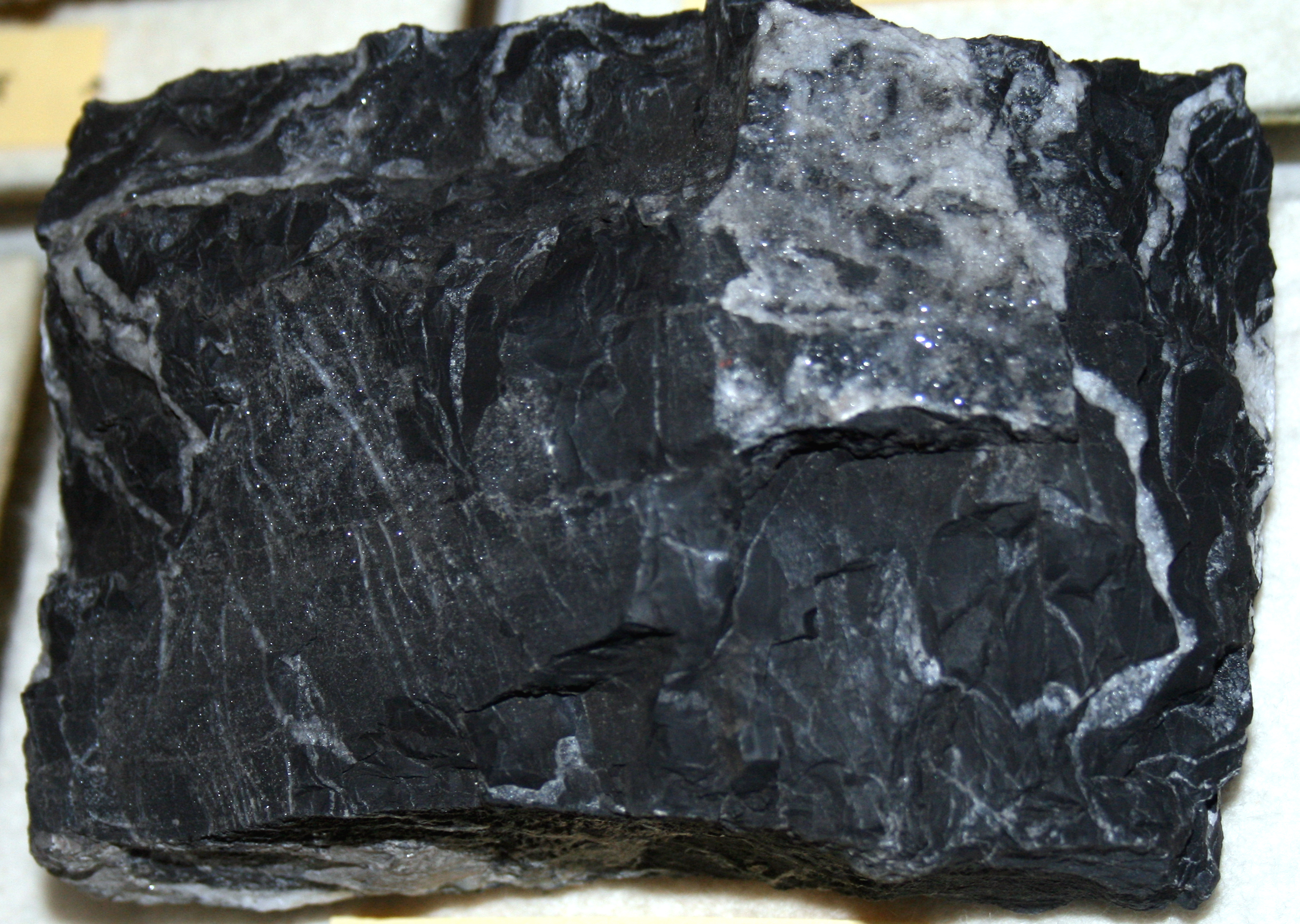 Rock chert from collection of National Museum, Prague, Czech Republic